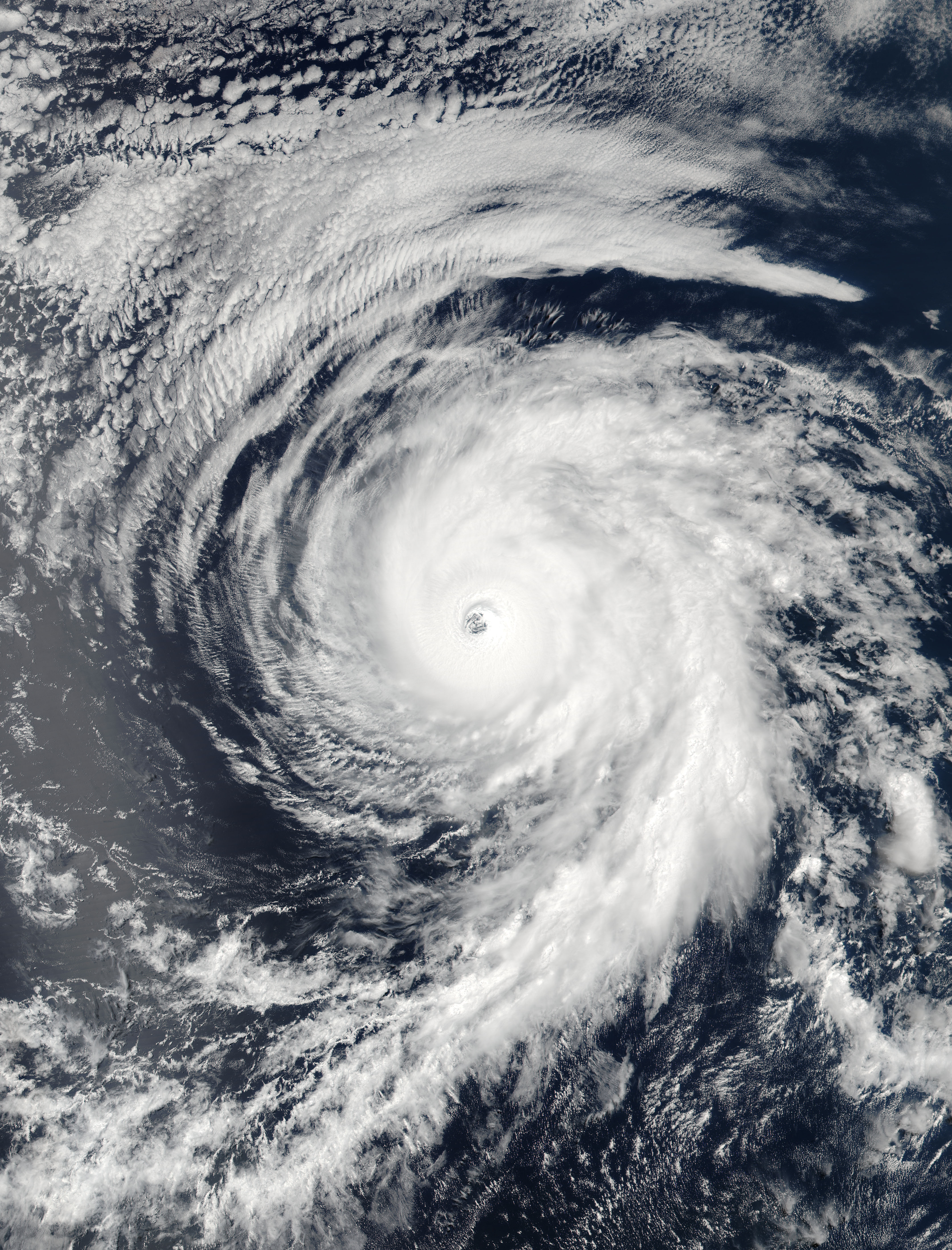 Hurricane Blas (03E) in the eastern Pacific Ocean